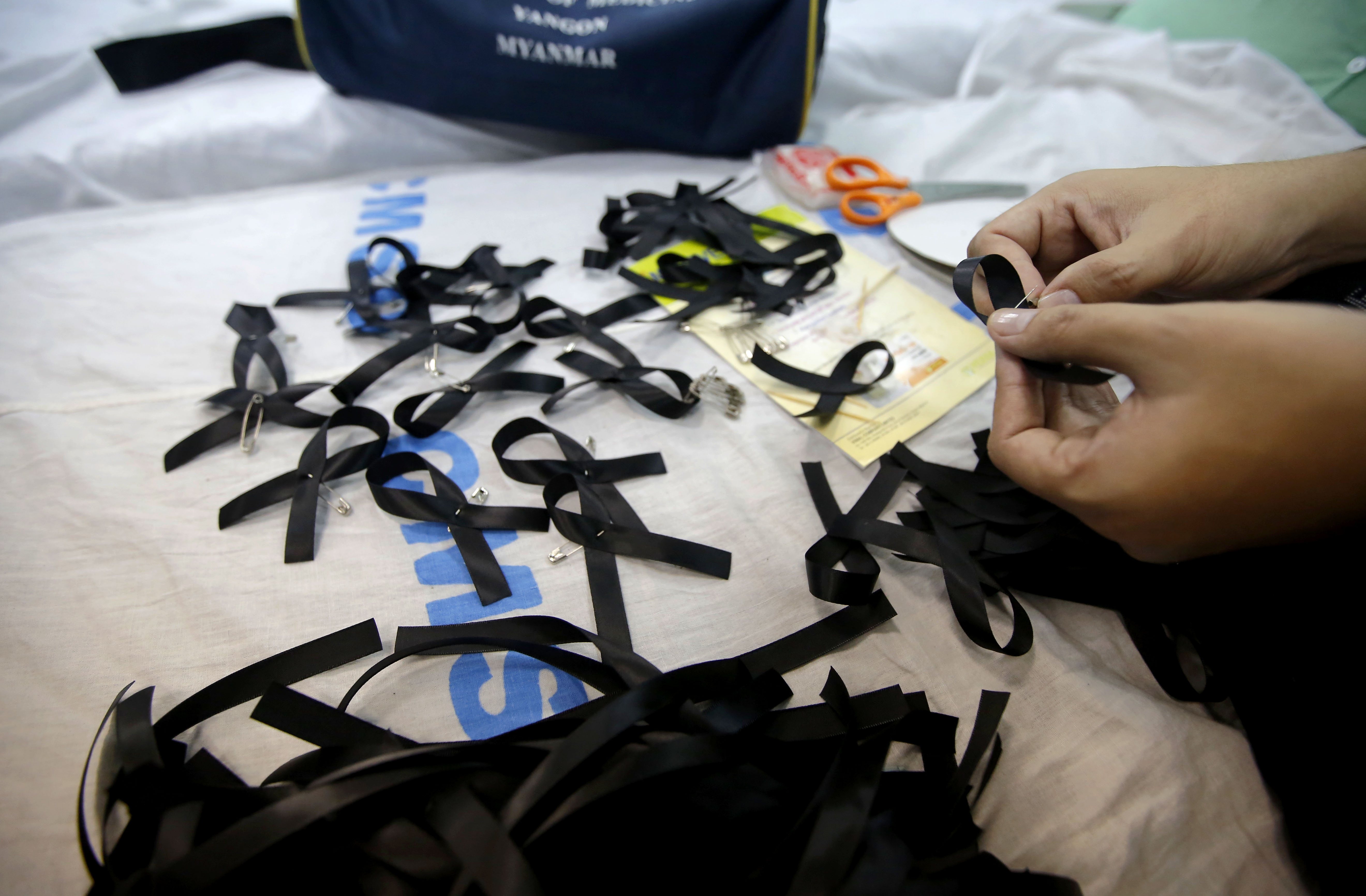 A doctor prepares black ribbons sympathizing with the 'Black Ribbon Movement' ready to be worn by hospital colleagues, at Yangon General Hospital, in Yangon, Myanmar. မြန်မာဓာတ်ပုံဆရာ လင်းဘိုဘို ရိုက်ကူးထားခြင်း ဖြစ်ပါသည်။ အိုတီအာအက်စ် လက်မှတ် တောင်းယူခြင်း မပြုထားပါ။